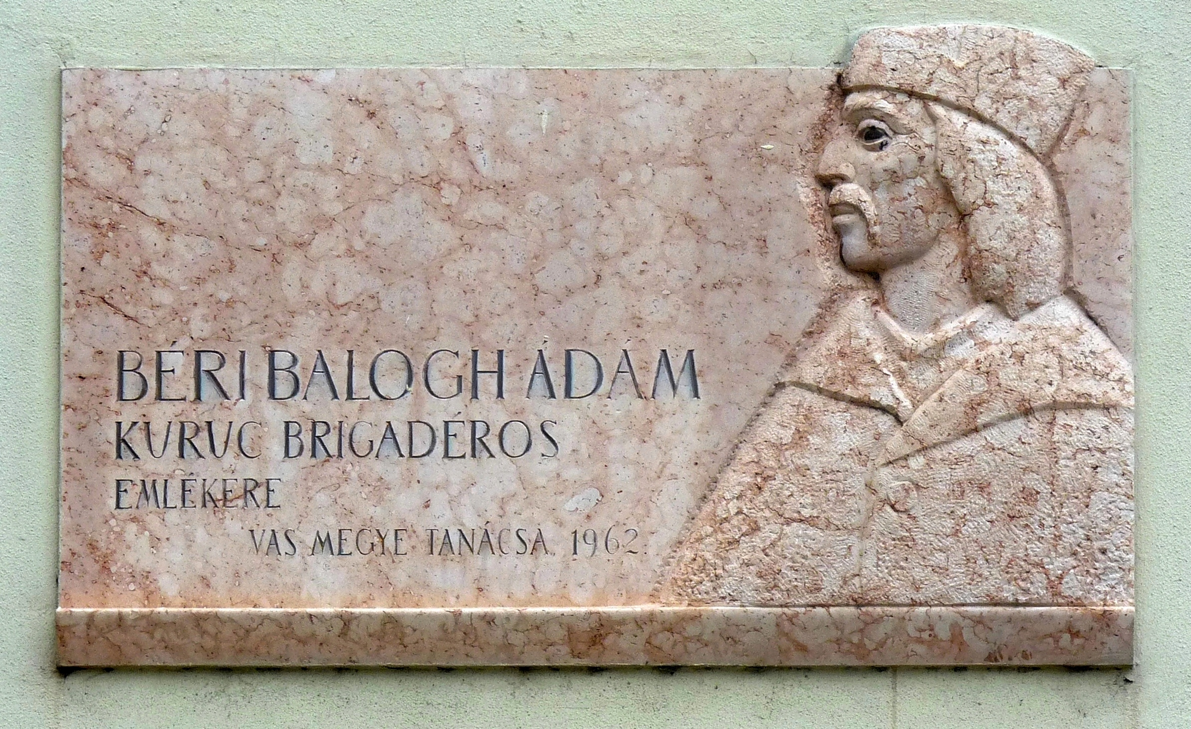 Commemorative plaque to Mr. Balogh Ádám de Bér (1665-1711) famous brigadier of the Kurucz army during the Rákóczi’s War for Independence. It is affixed to the wall of the county hall in Szombathely. The author of the red marble relief is Mr. Károly Majthenyi (1963). (Szombathely, Berzsenyi Dániel Square Nr 1)